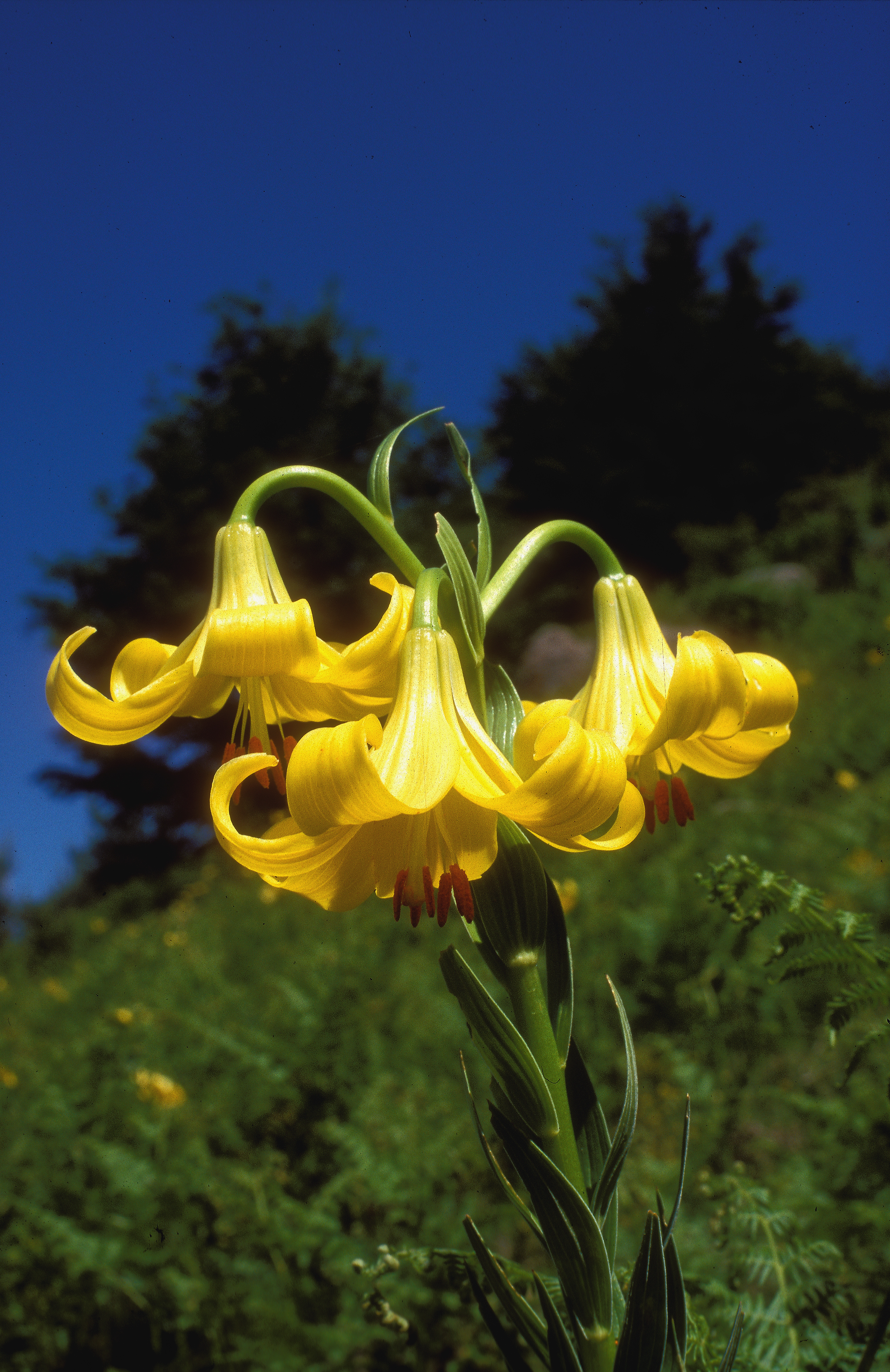 Lilium rhodopeum in habitat at Rhodope Mountains, Livaditis, Greece